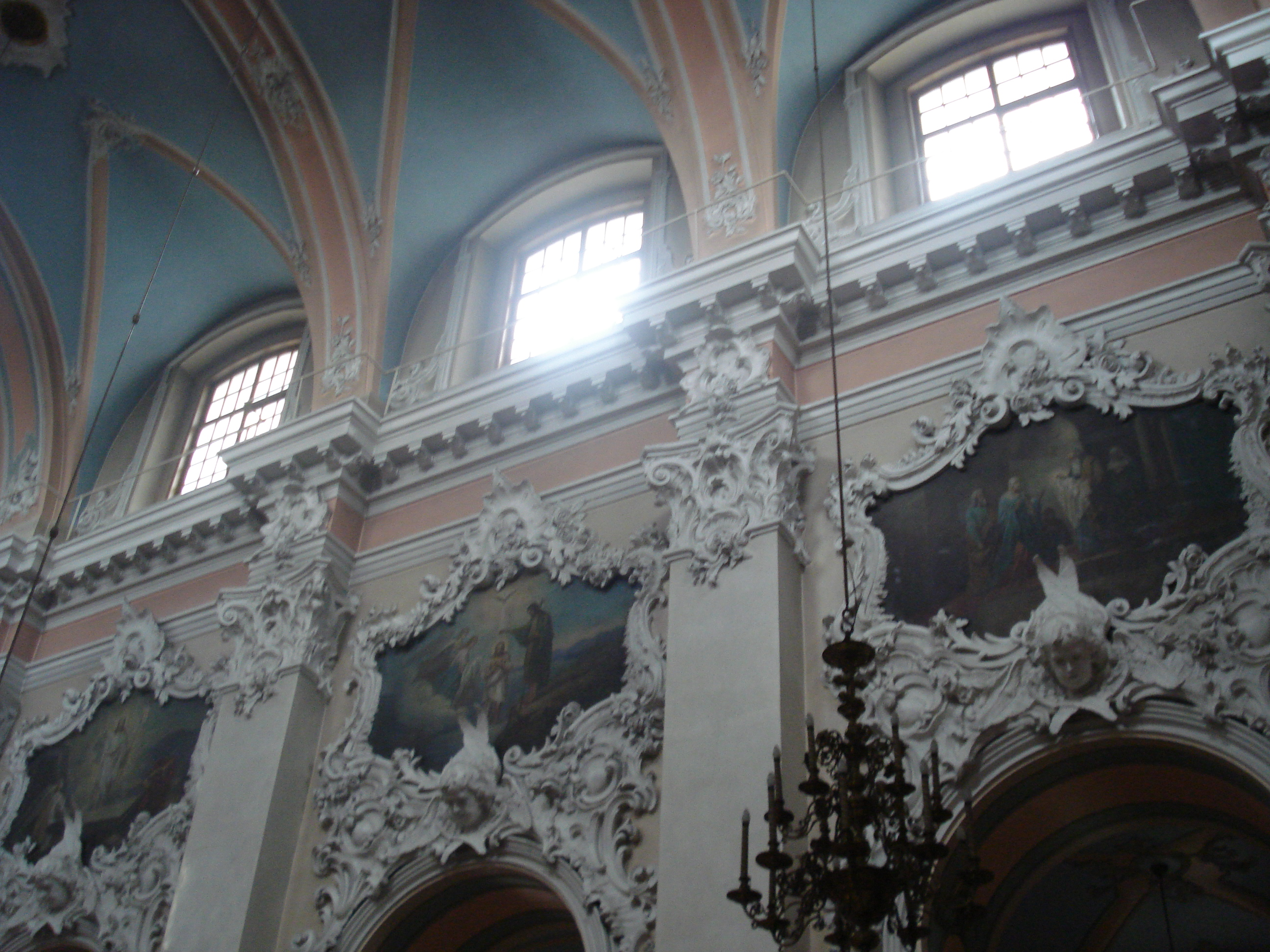 The Orthodox Church of the Holy Spirit in Vilnius (Aušros vartų g. 10). Inside